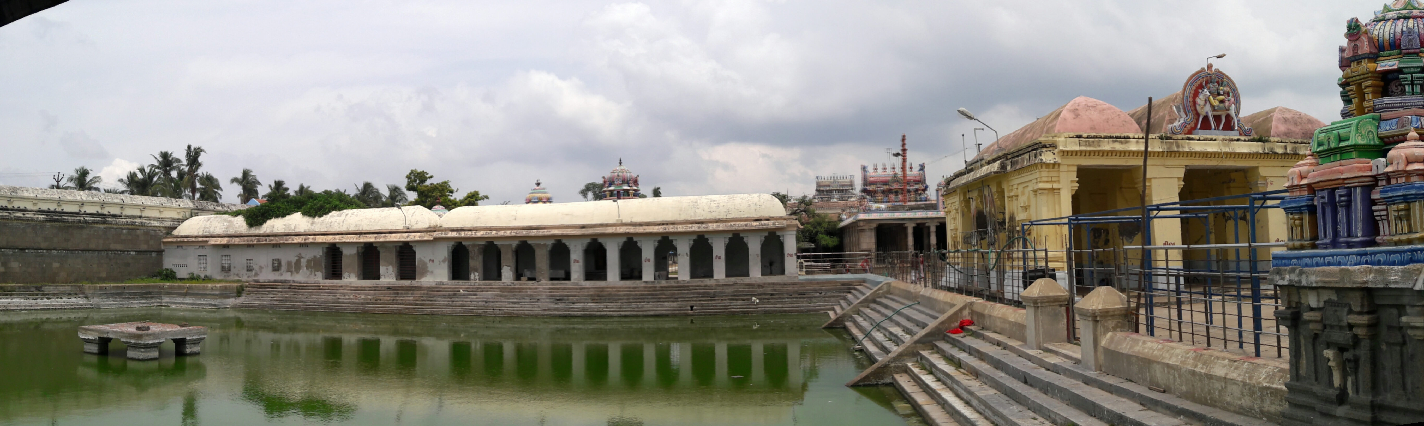 Vedaranyeswarar temple, Vedaranyam